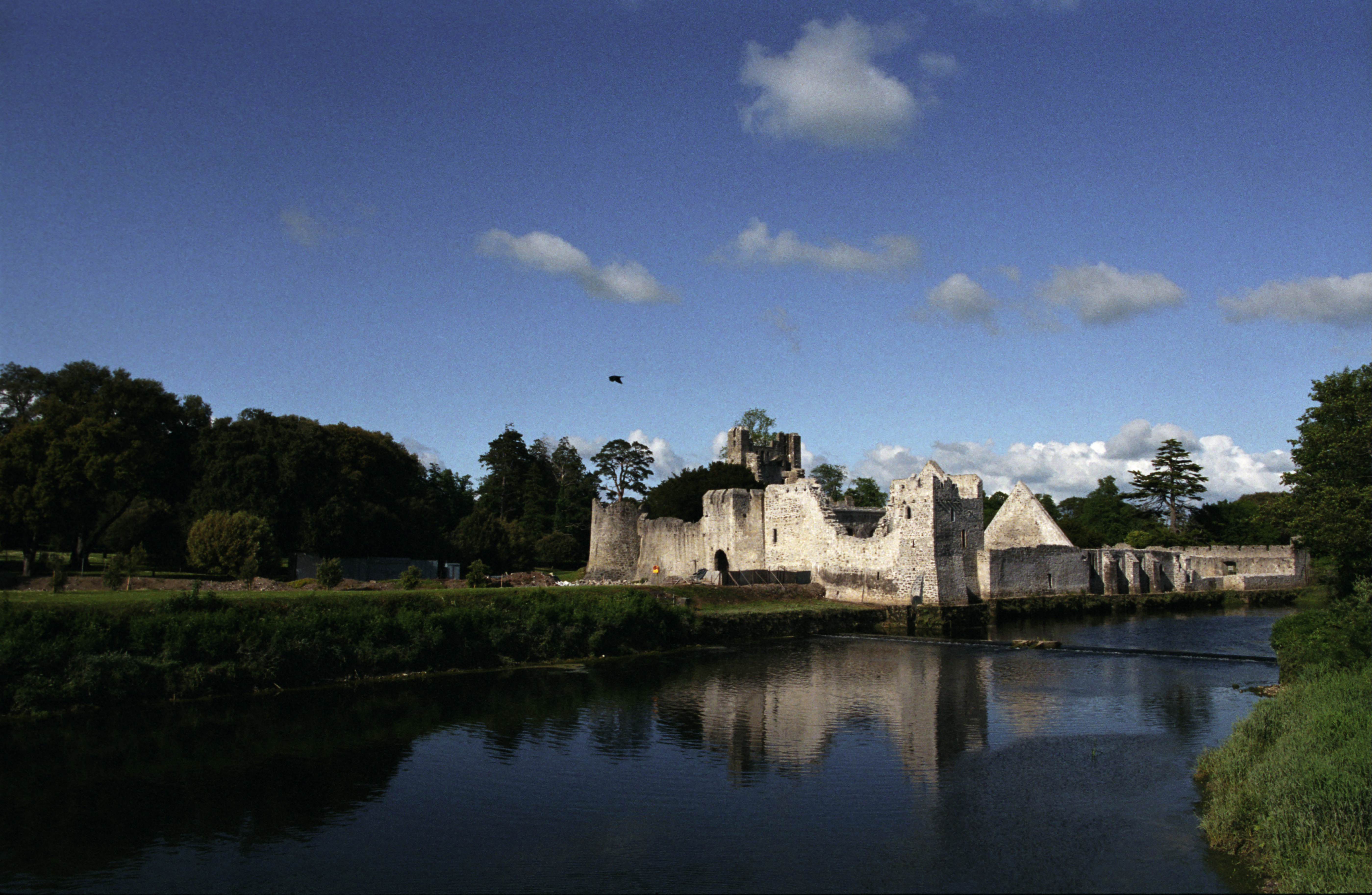 Desmond Castle, Adare, Ireland